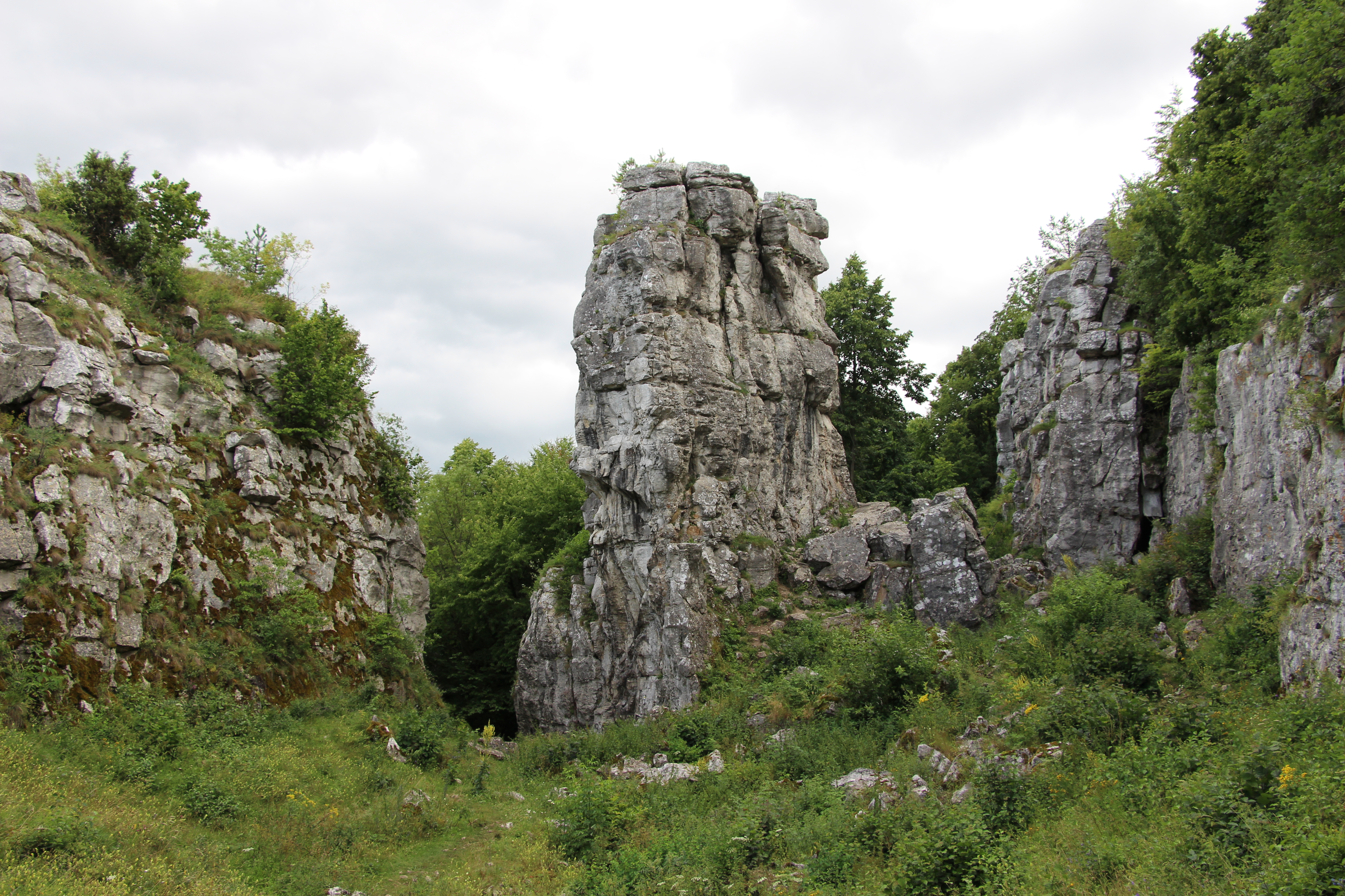 Dreveník, Slovakia